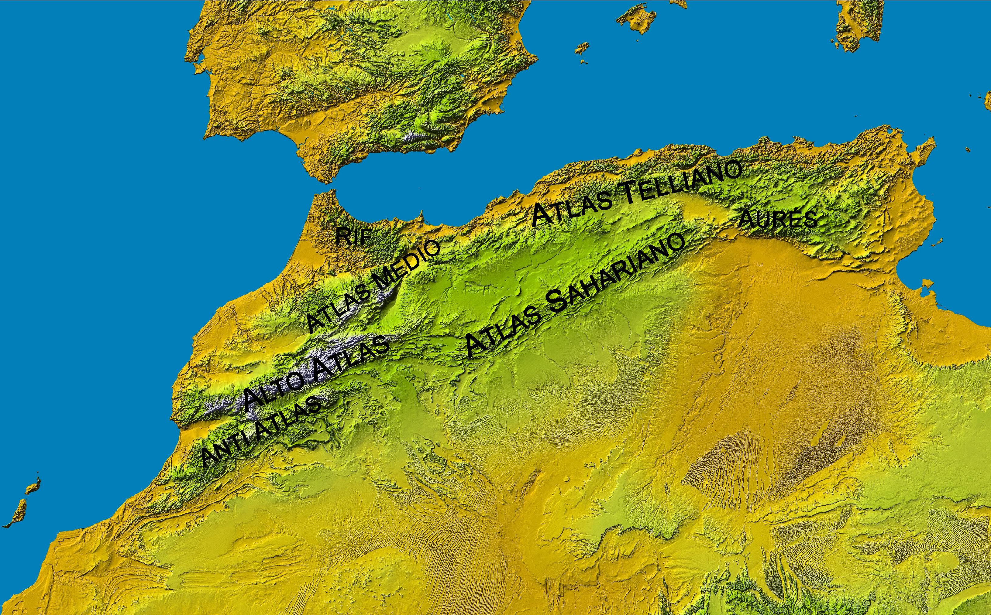 Atlas mountains (labels in Spanish)